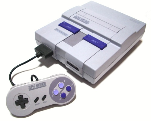 Super Nintendo Entertainment System, North American version.